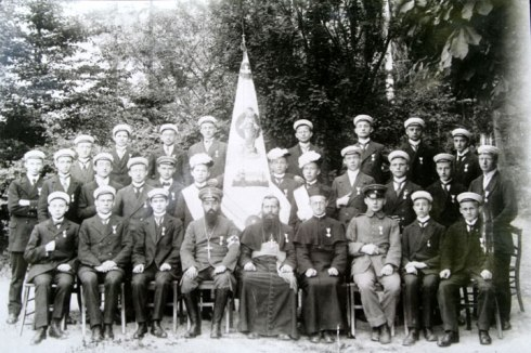 Picture taken in the beginning of the Schoenstatt's Marian Congregation, in Vallendar, Germany, on October 1914.